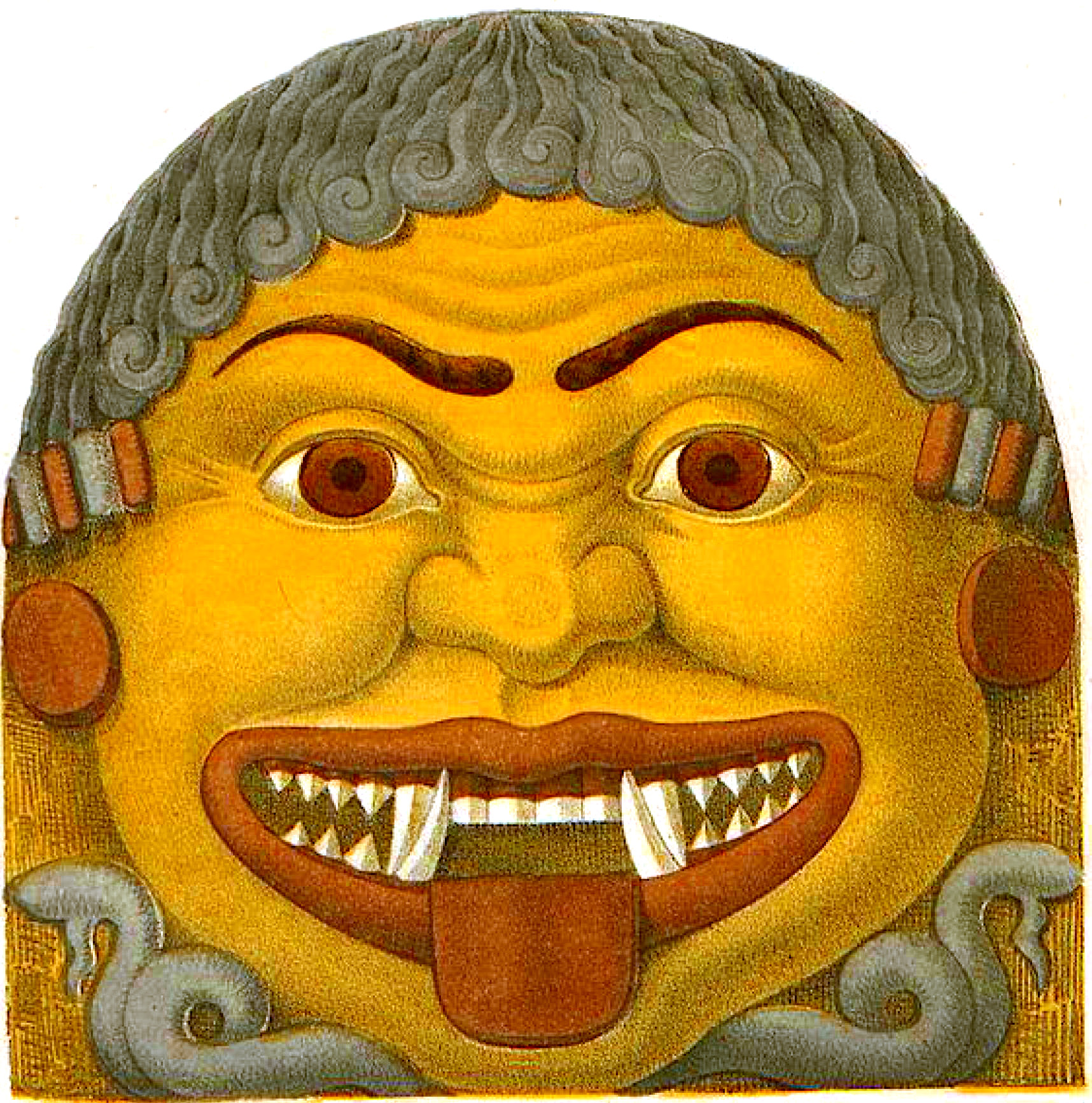 Gorgoneion